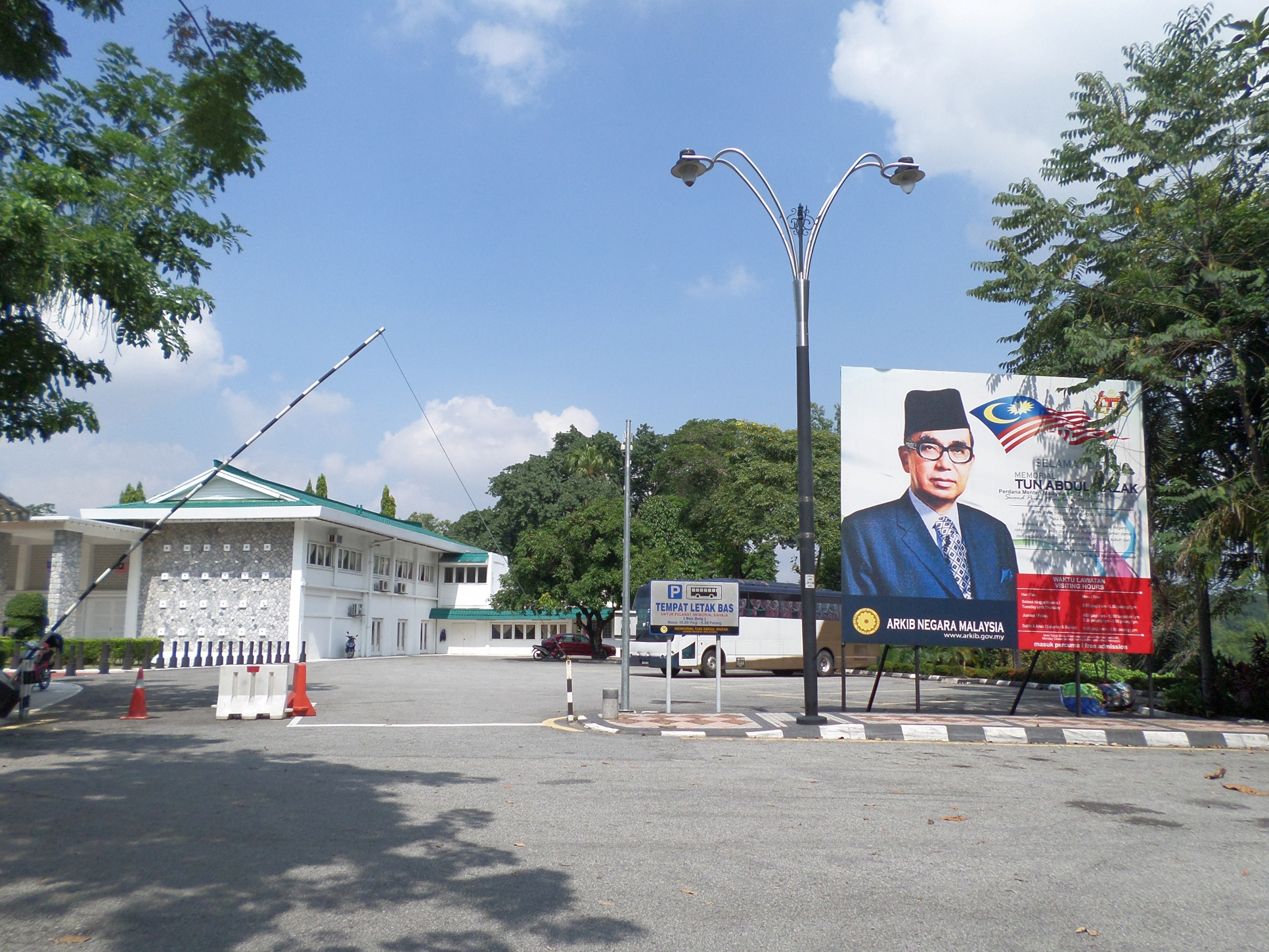 Tun Abdul Razak Memorial, Perdana Botanical Gardens, Kuala Lumpur, Malaysia